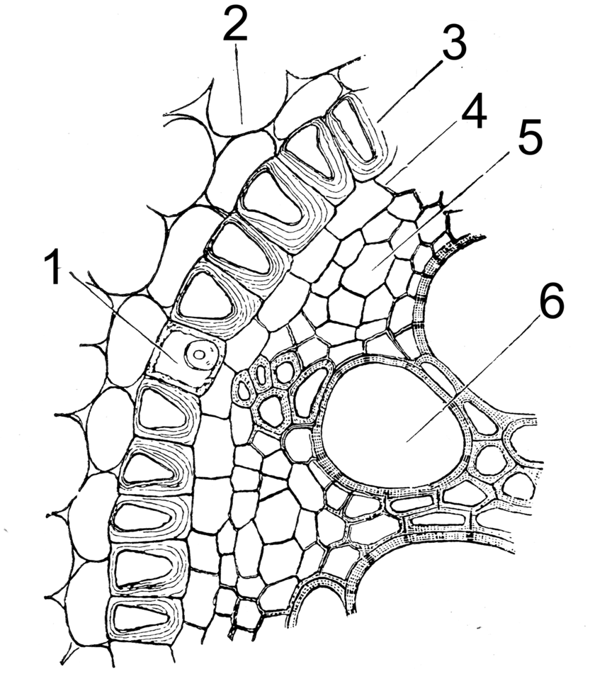 Tertiary Endodermis of Iris florentina; 1 Durchlasszelle, 2 Rindenparenchym, 3 Endodermis, 4 Perizykel, 5 Phloem, 6 Xylem